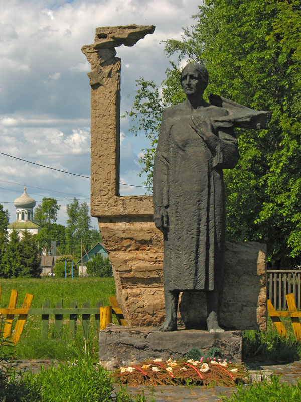 WW2 Memorial in Sitcy